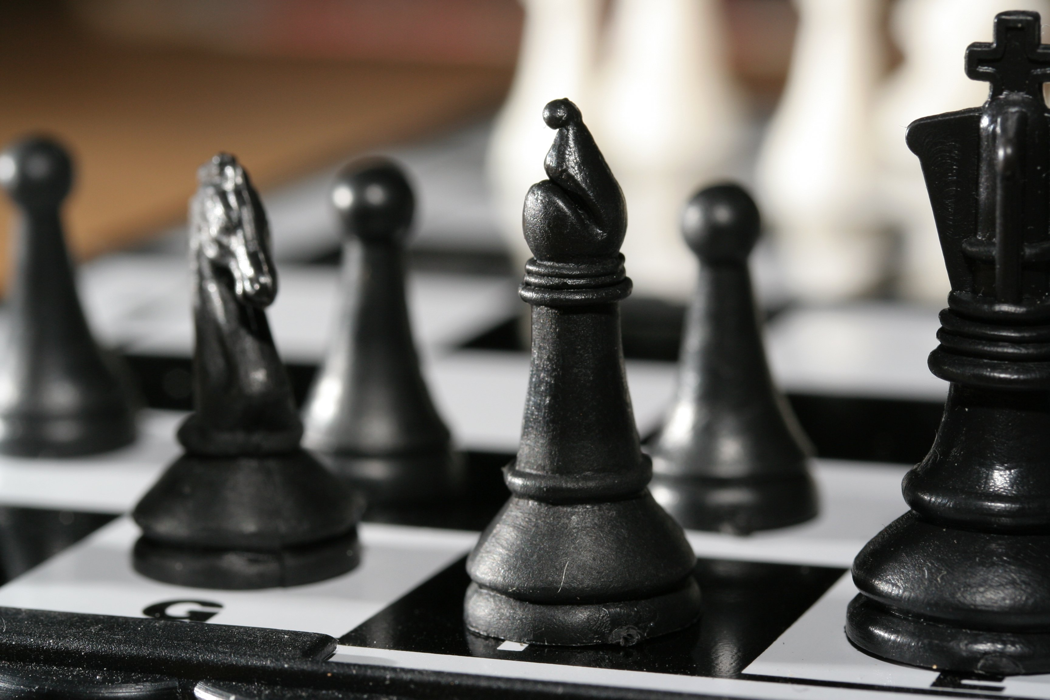 Chess bishop 1000